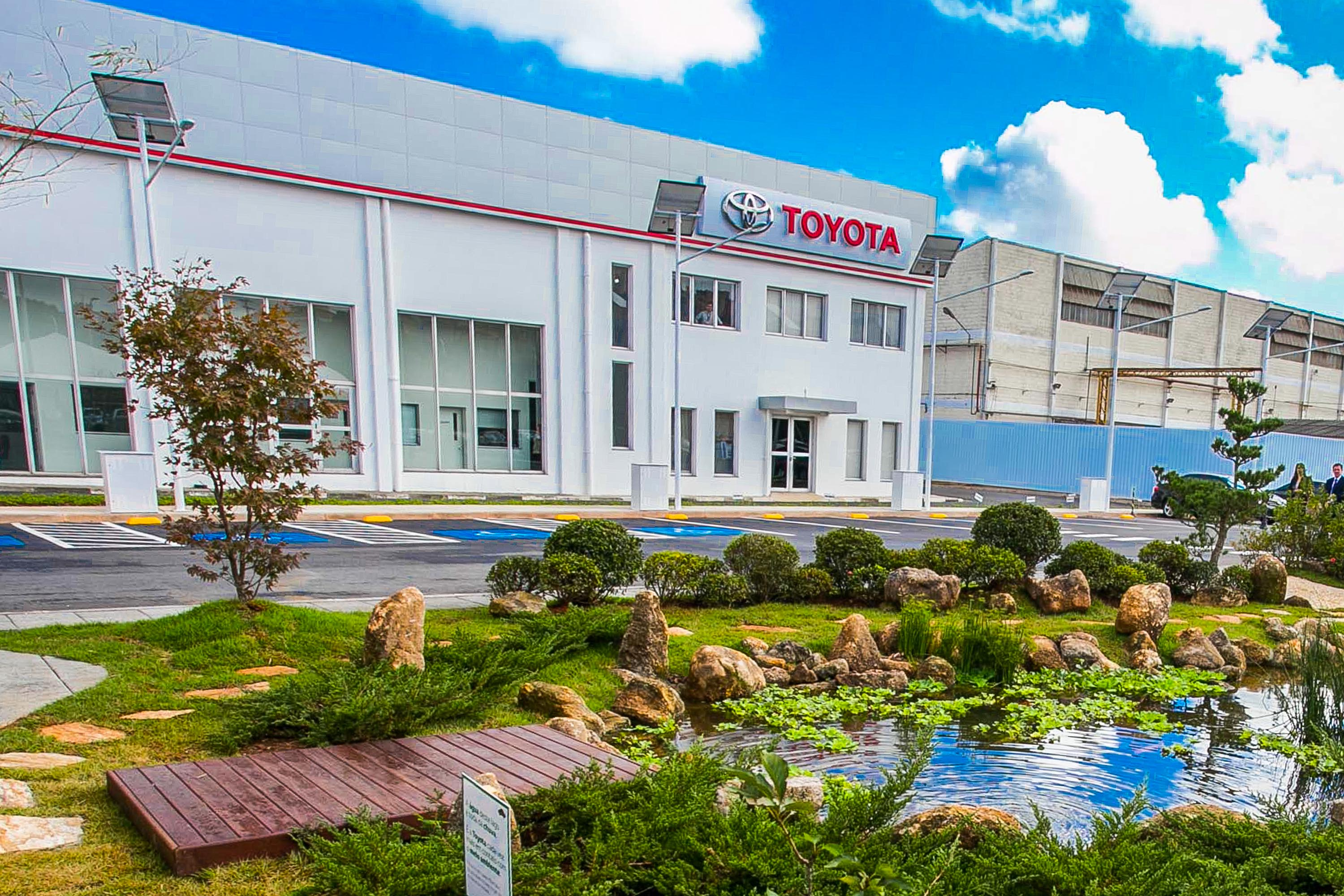 O governador Geraldo Alckmin participa do lançamento da primeira fase do projeto de Revitalização da Fábrica de São Bernardo do Campo da Toyota do Brasil em São Bernardo do Campo.Data: 23/03/2015. Local: São Bernardo do Campo/SP.Foto: Diogo Moreira/A2 FOTOGRAFIA